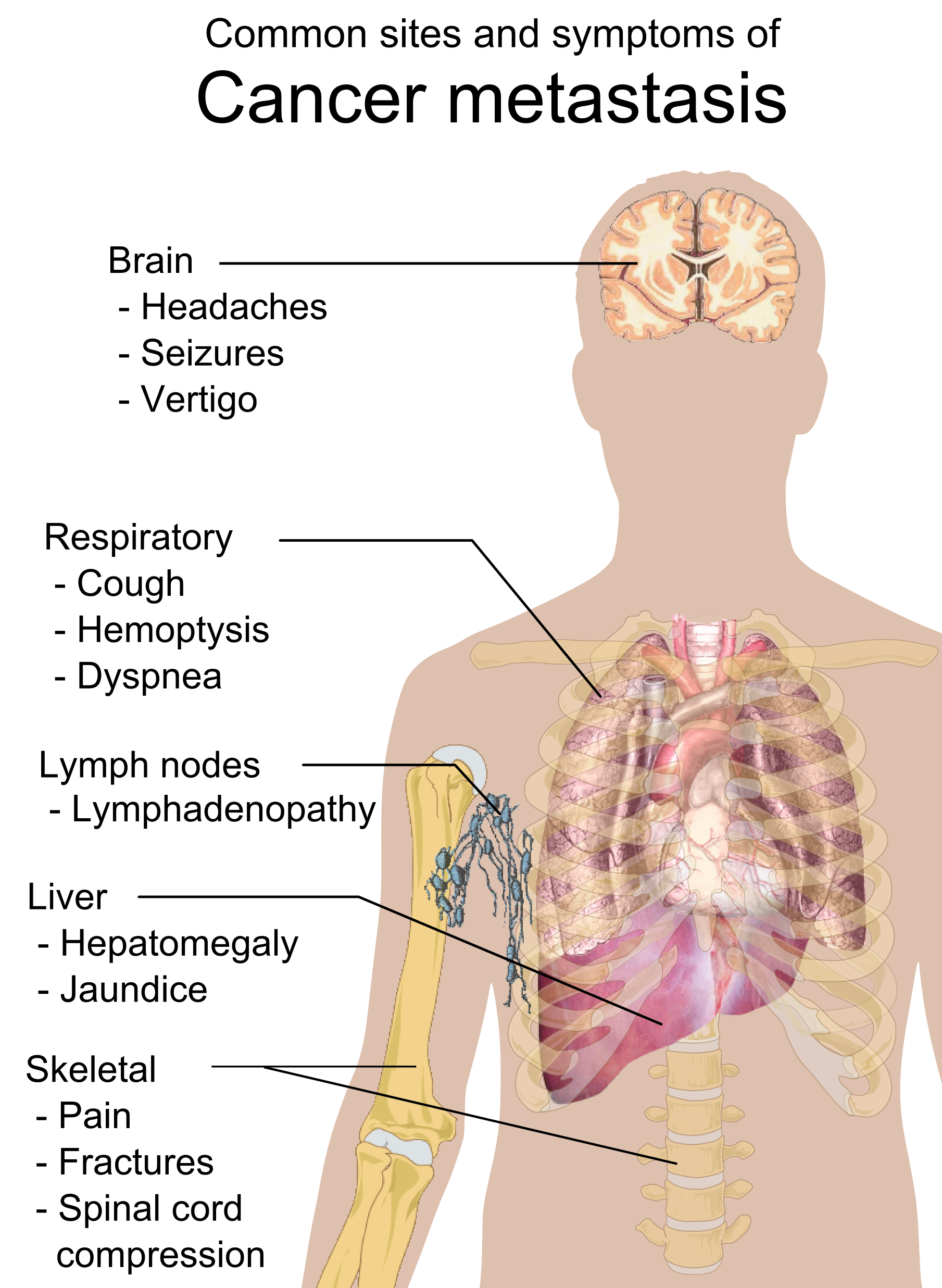 Main symptoms of cancer metastasis. Sources are found in main article: Wikipedia:Metastasis#Symptoms. To discuss image, please see Template talk:Human body diagrams